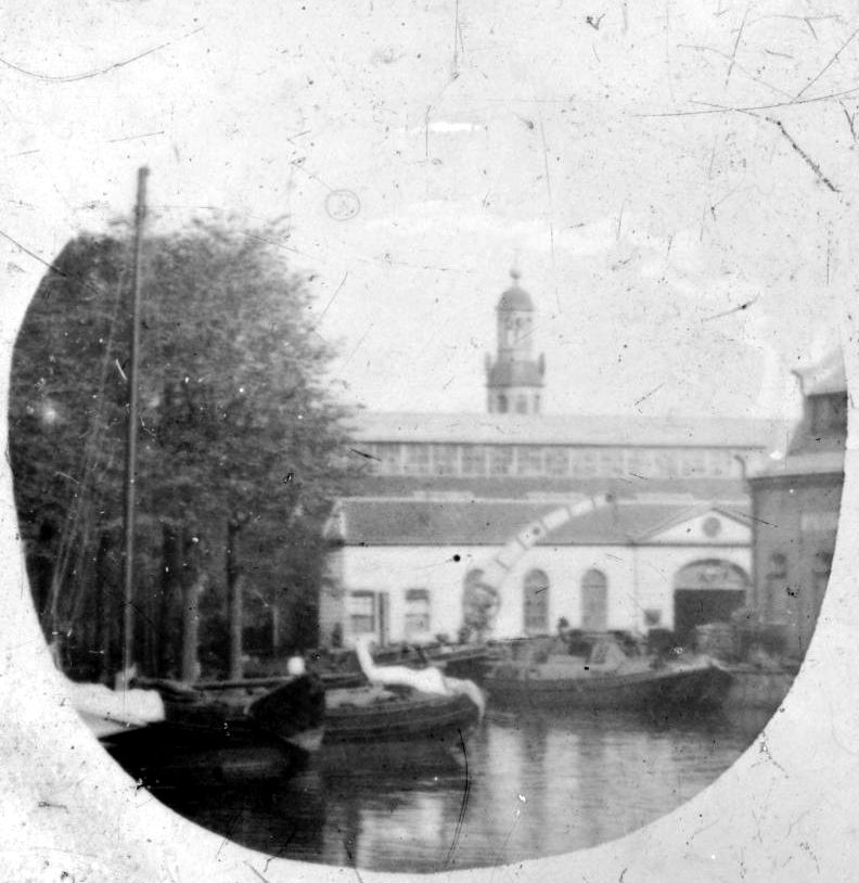 Grofsmederij Leiden. 1860